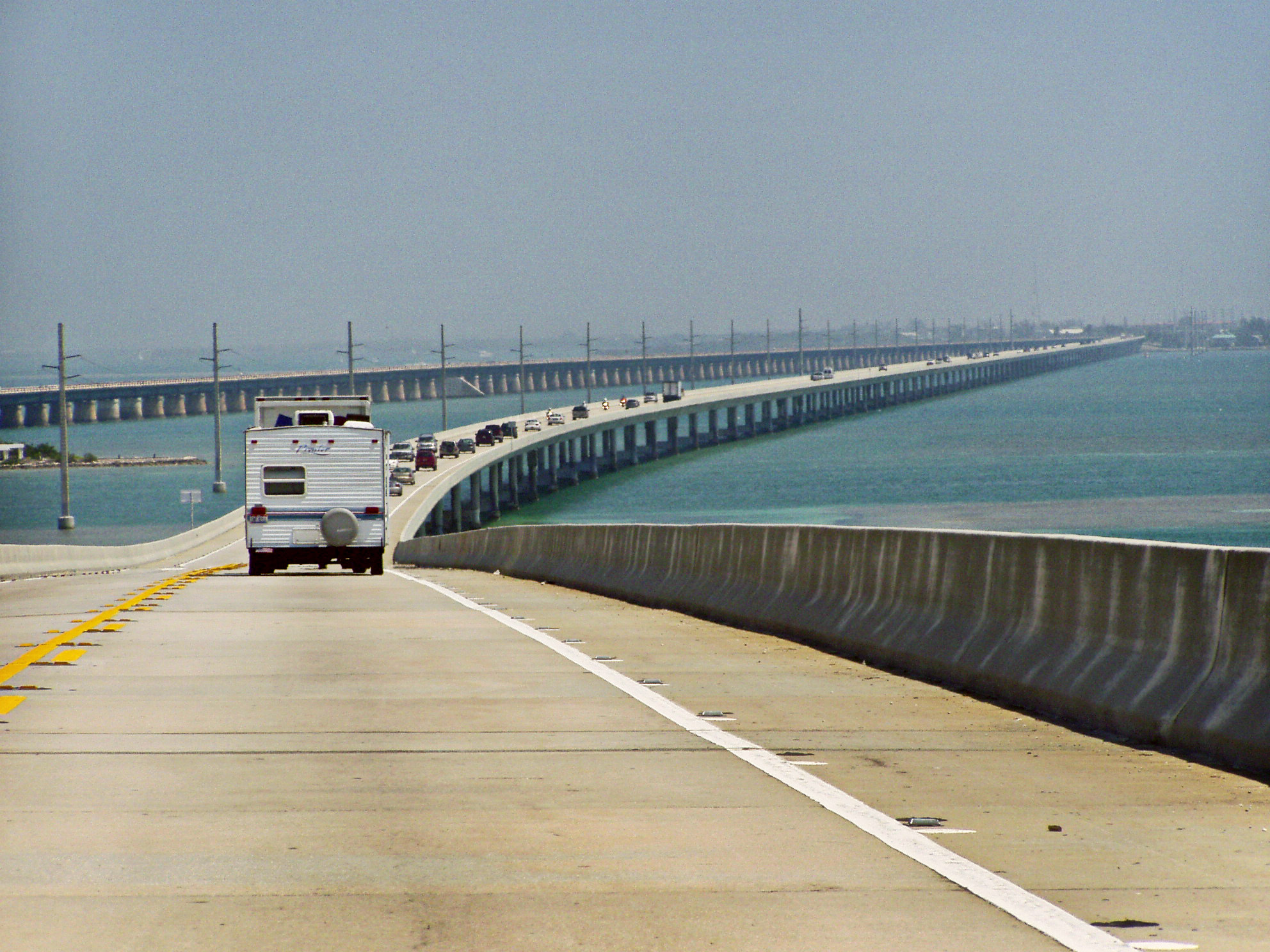 Seven Miles Bridge